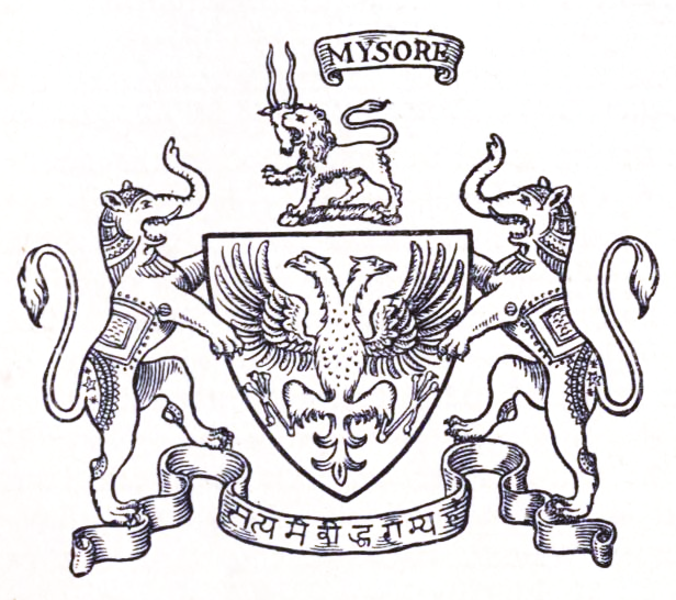 Coat of arms of the Indian princely state of Mysore